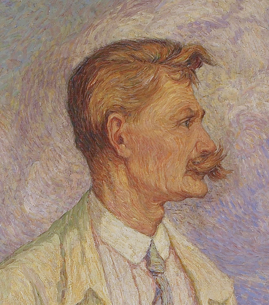 Stijn Streuvels